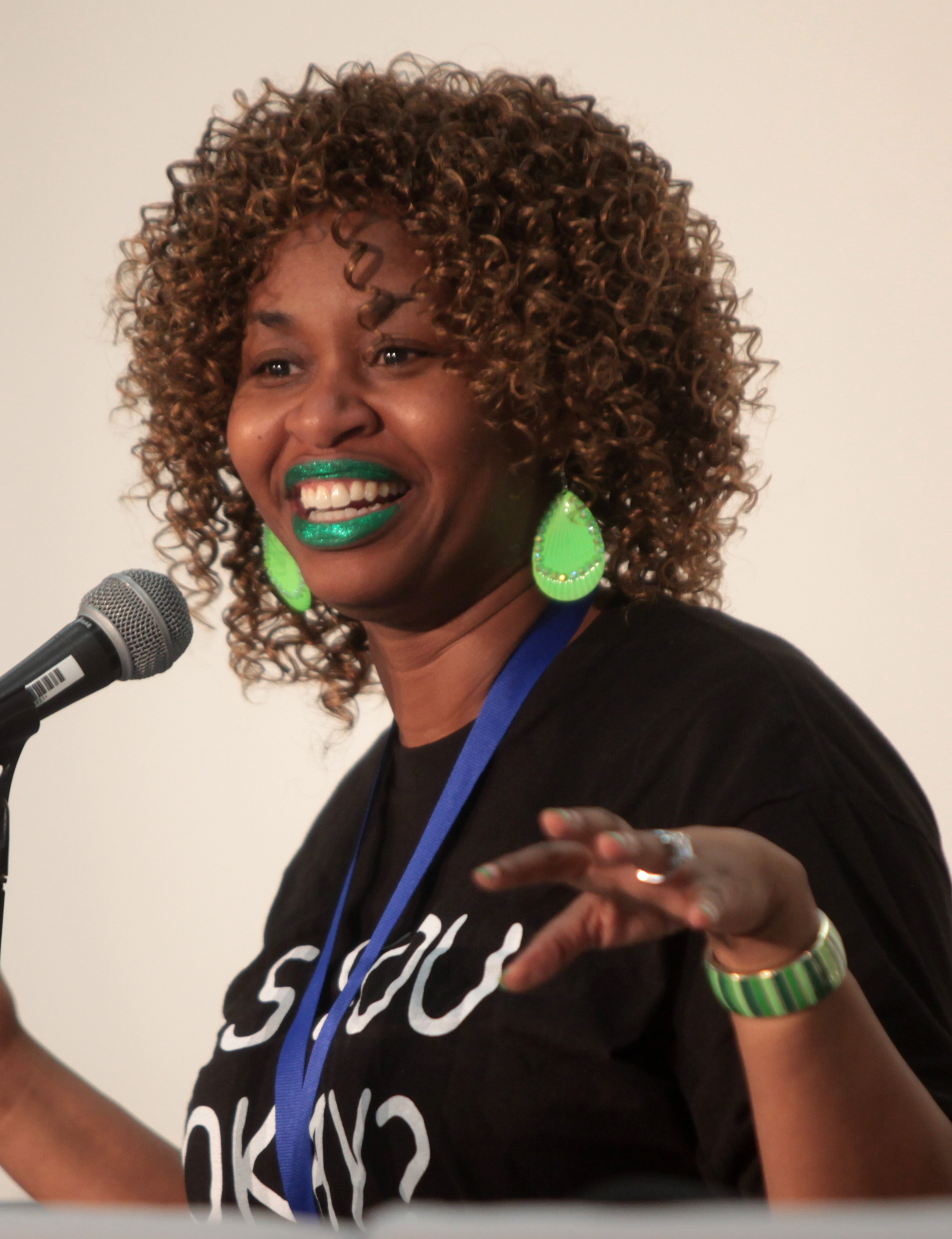 GloZell speaking at the 2014 VidCon on June 28, 2014.